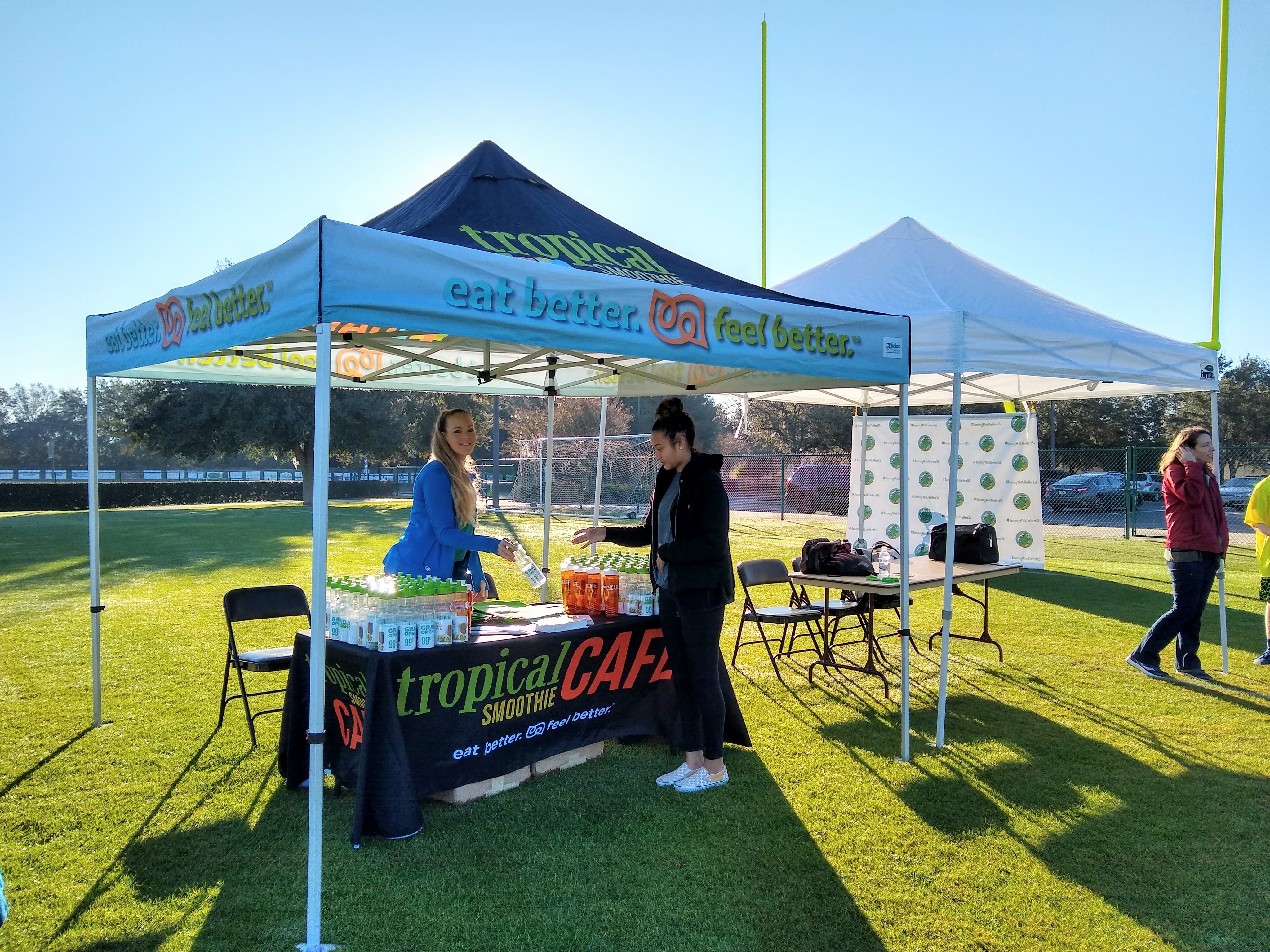 Smoothie booth at a running event in The Villages, Florida in 2020.